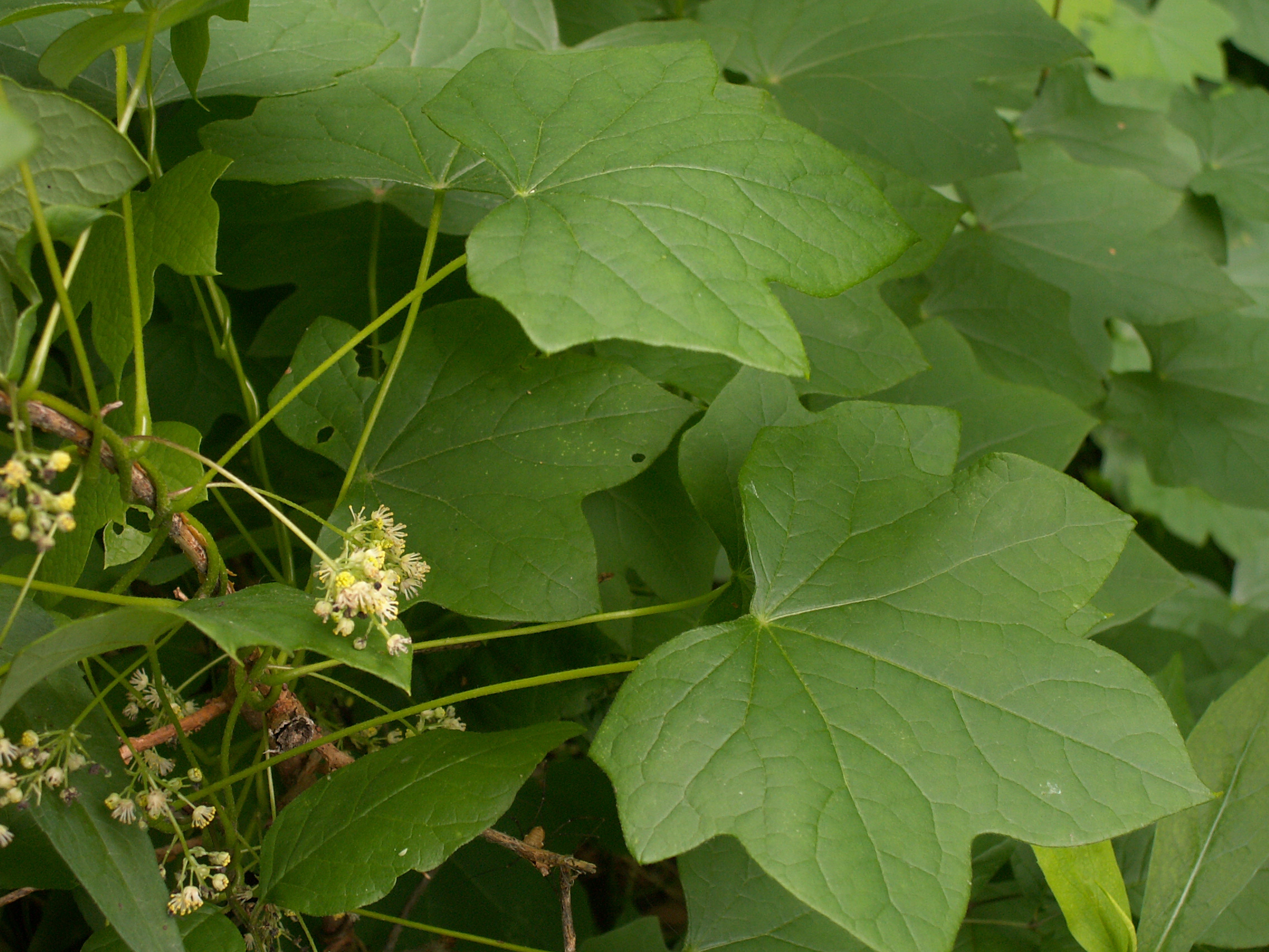 Canada Moonseed (Menispermum canadense) blooming in Frick Park, Pittsburgh